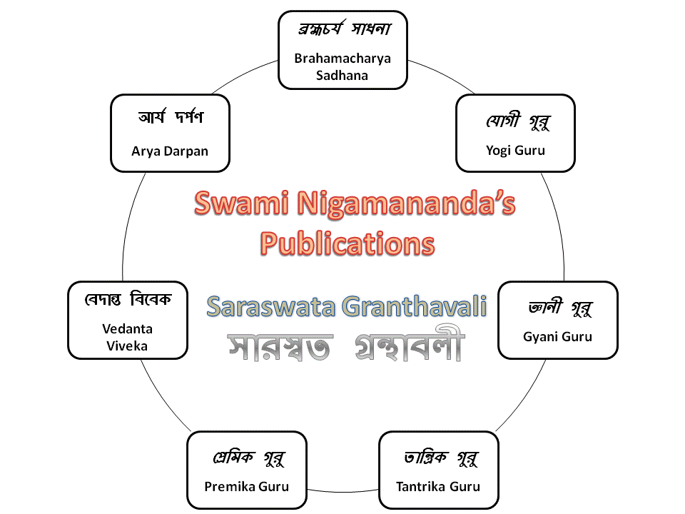 Series of Bengali Publications by Swami Nigamananda or Saraswata Granthavali.